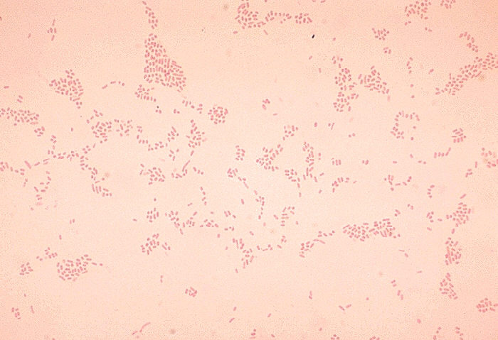 Actinobacillus suis. Gram stain.